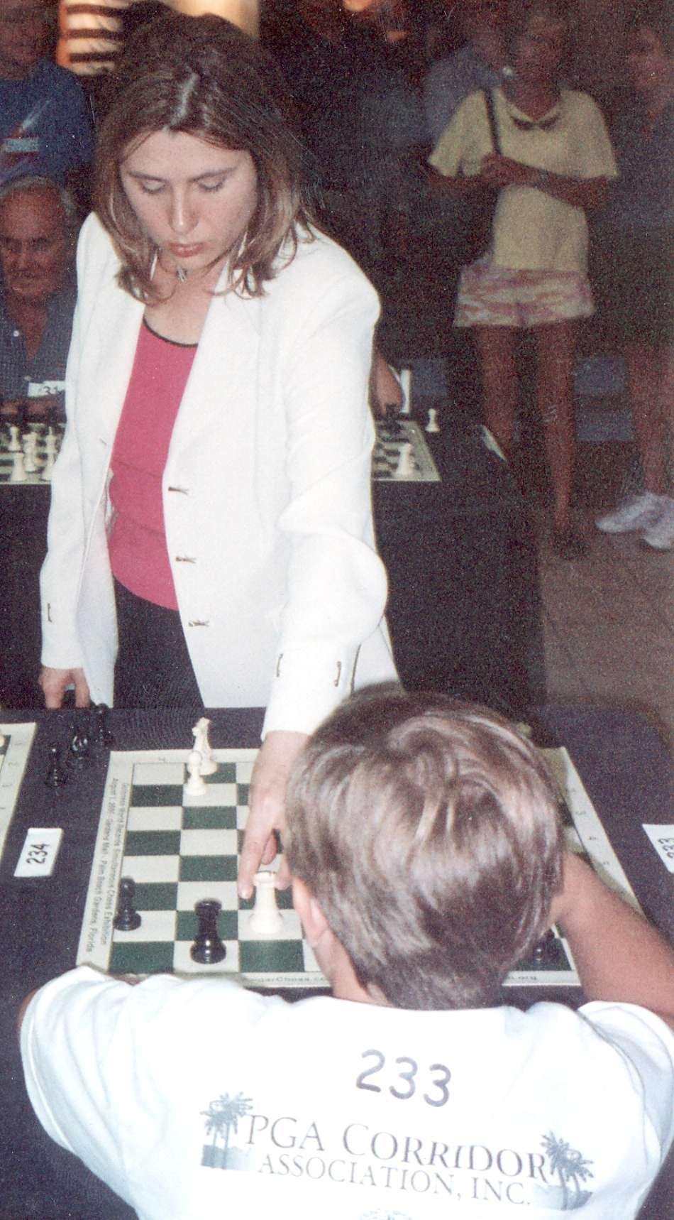 see also Image:Susan Polgar.JPG